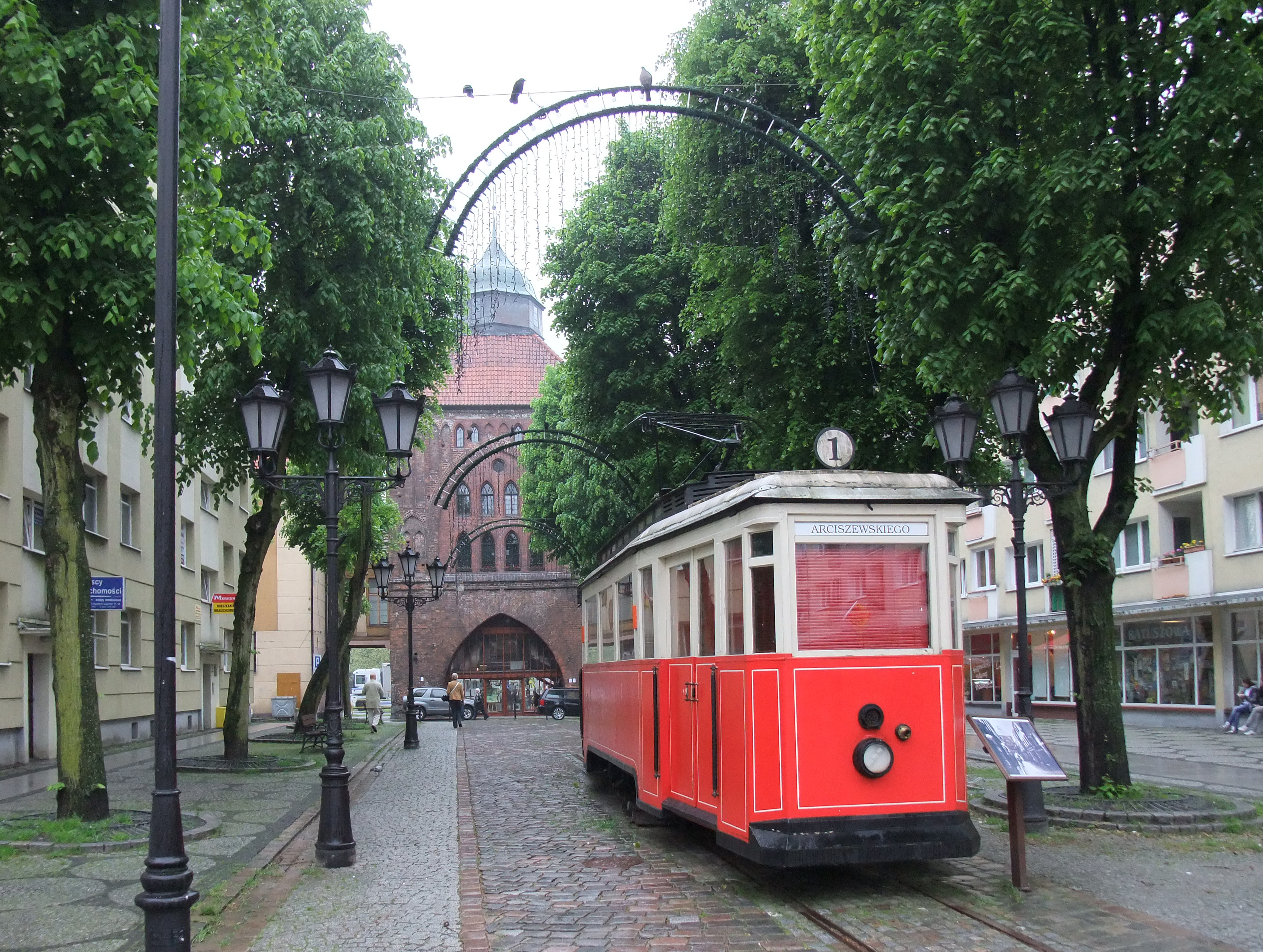 Tram in Słupsk